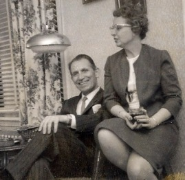 Namesake of the Falcone INternational Tuba and Euphonium Competition LEonard Falcone and wife Beryl at the home of Birmingham Michigan music teacher Arnold Berndt around 1960